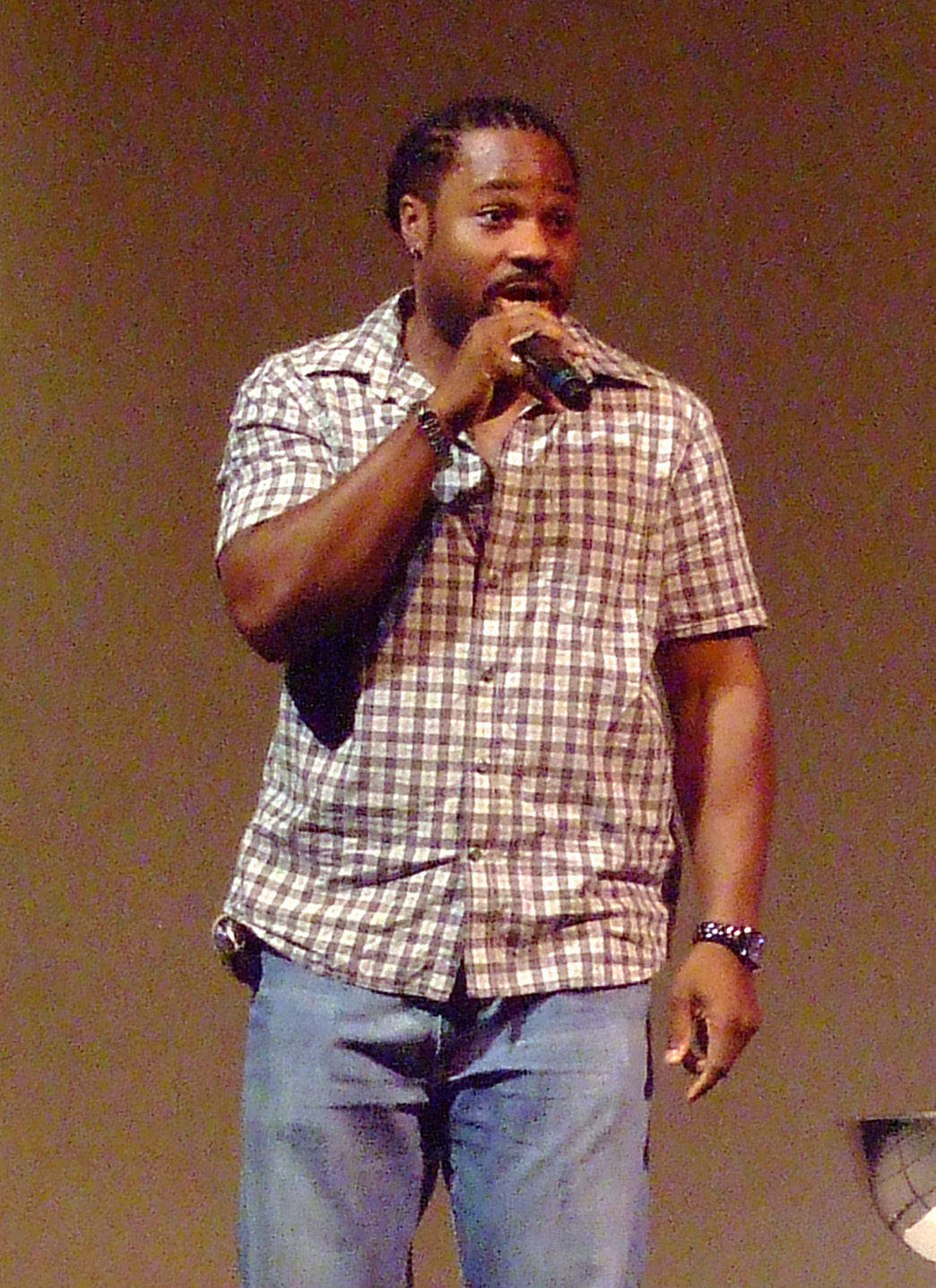 Malcolm-Jamal Warner at National Black Theater Festival